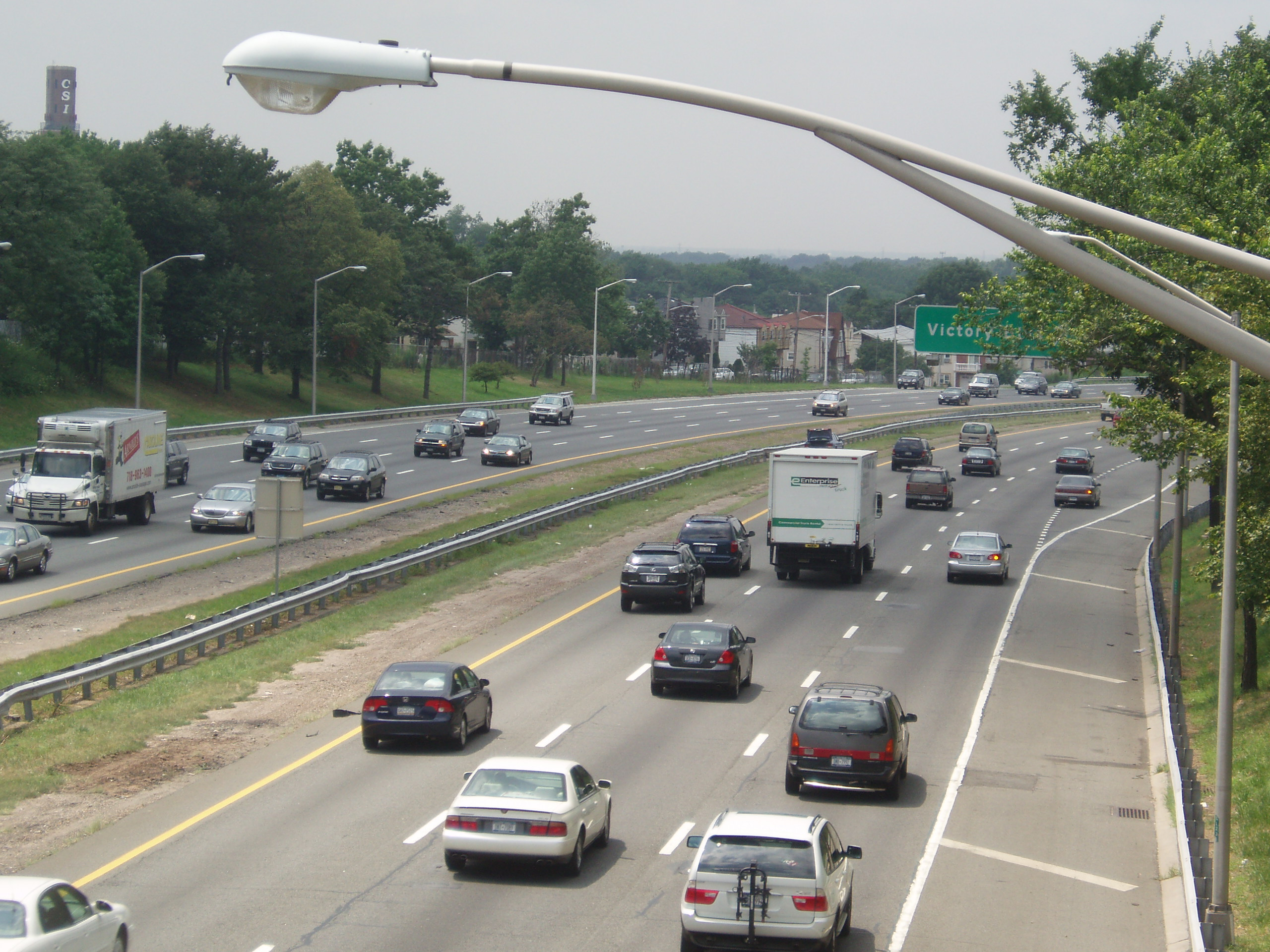 Facing west over the Staten Island Expressway, from Woolley Avenue. Visible is the Victory Boulevard exit sign and on the left, the College of Staten Island. I took this photograph.